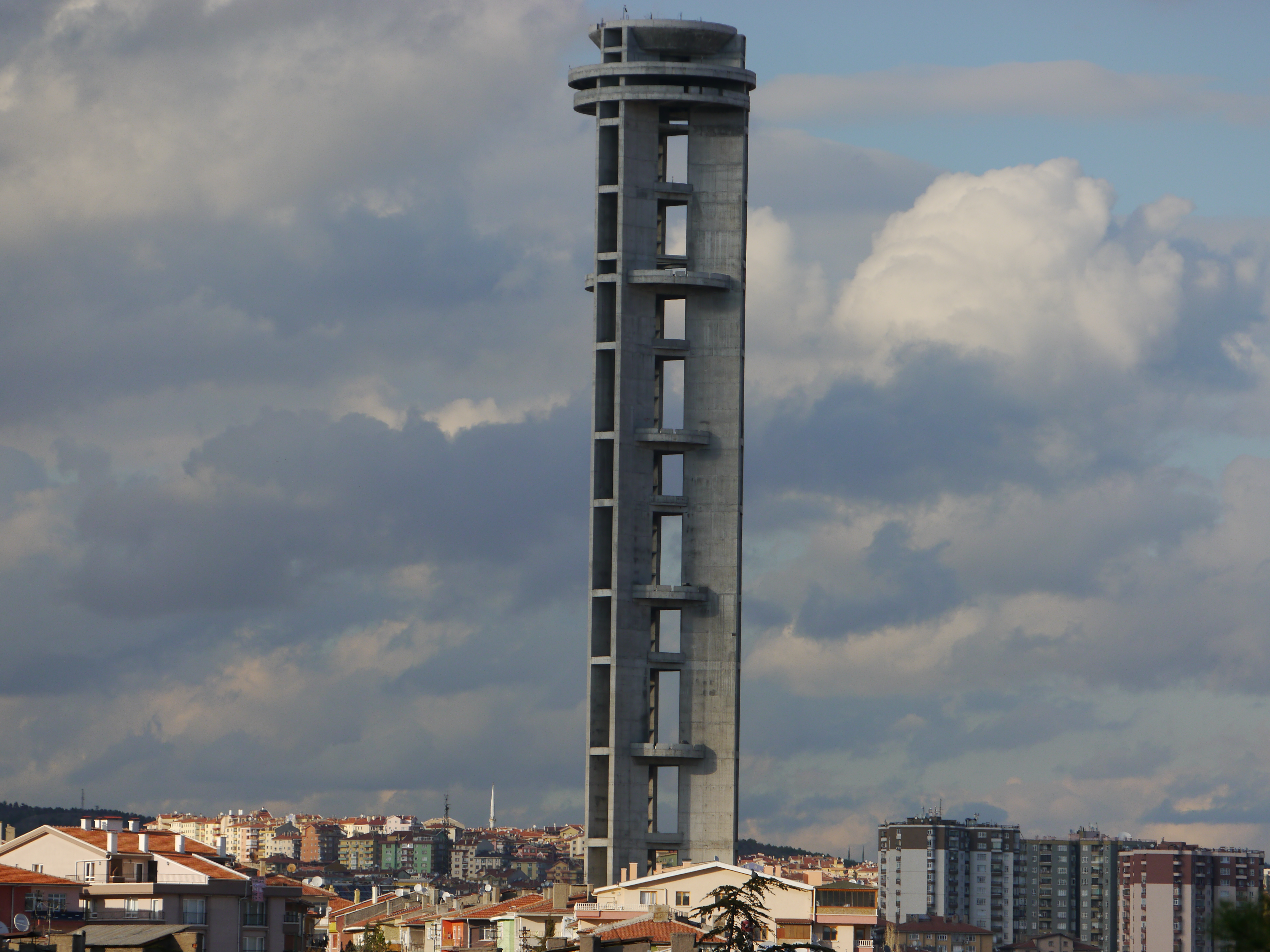 Incomplete Ankara, Keçiören Republic TowerTürkçe: Yapım aşamasında olan Ankara Keçiören Cumhuriyet Kulesi